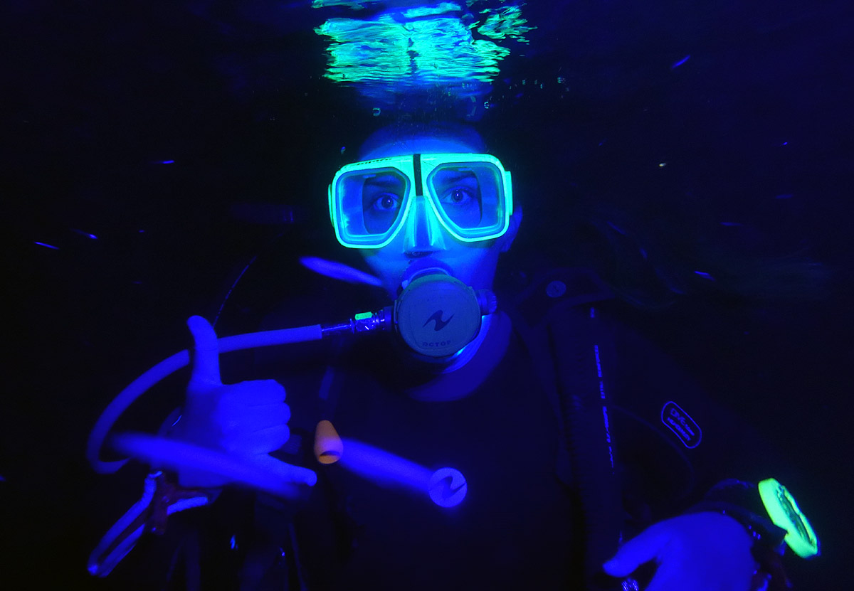 Diver at a night dive